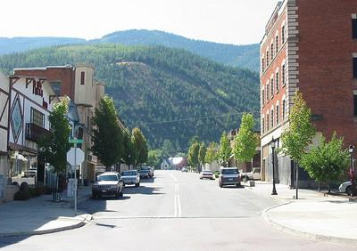 My picture of Downtown Kellogg.